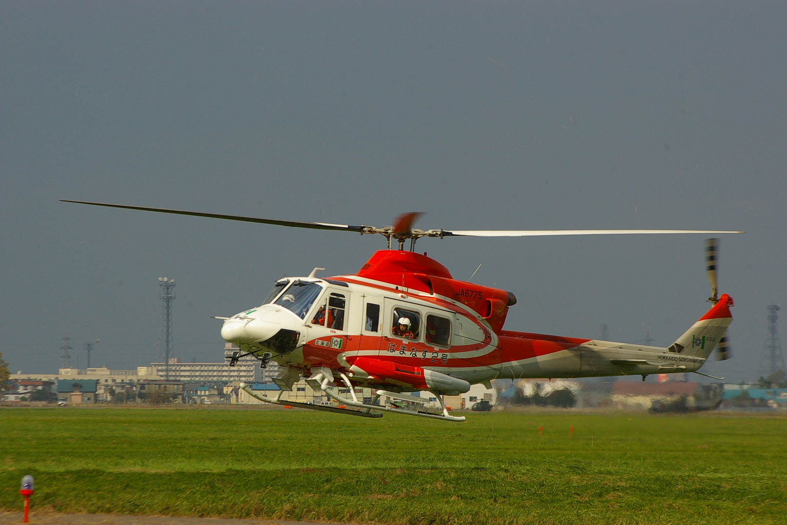 Hokkaido Prefecture Bell412EP HAMANASU2 in Okadama Airport.